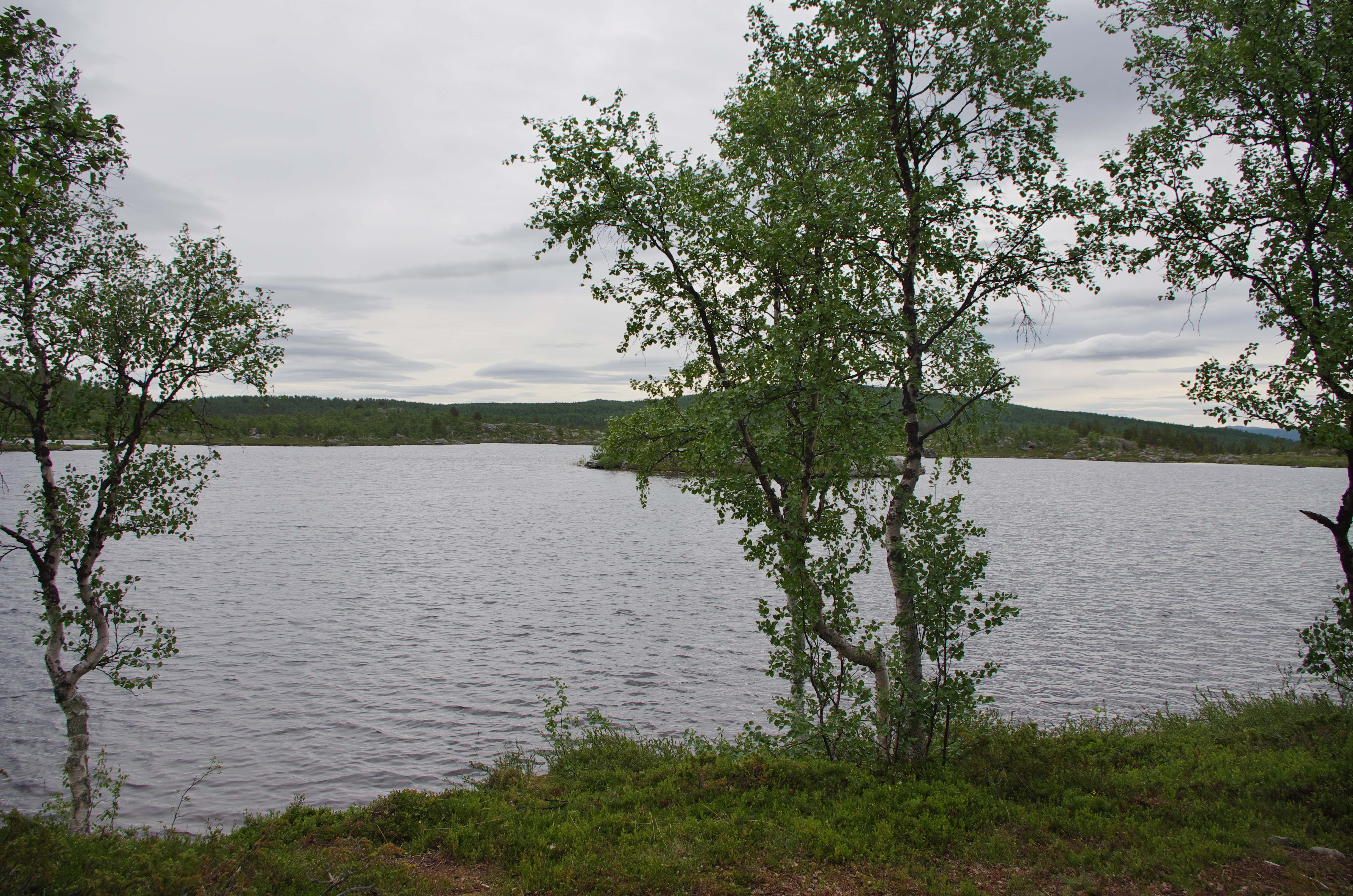 Kistojauratj (modern spelling Gistojávrátj) is a lake in Arjeplog Municipality, Lappland, Sweden.